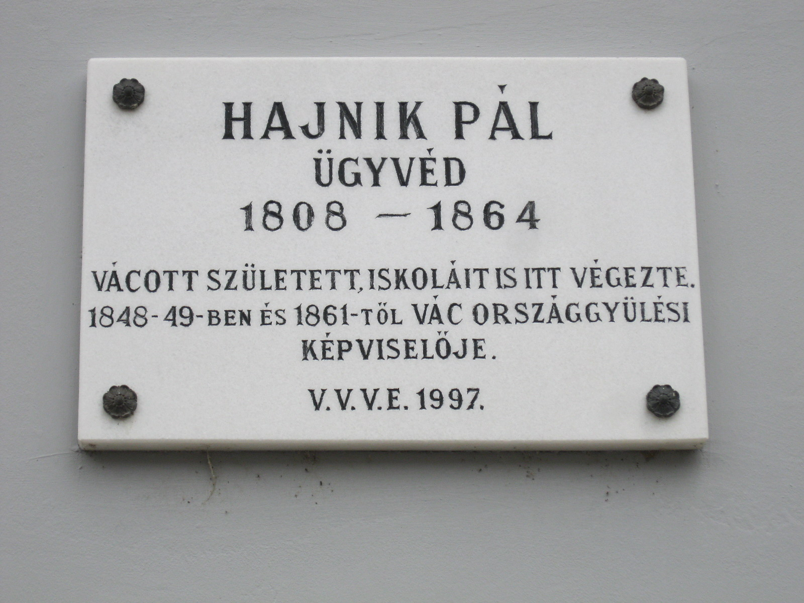 Pál Hajnik commemorative plaque in Vác. Hajnik Pál Street or Március 15. Square?